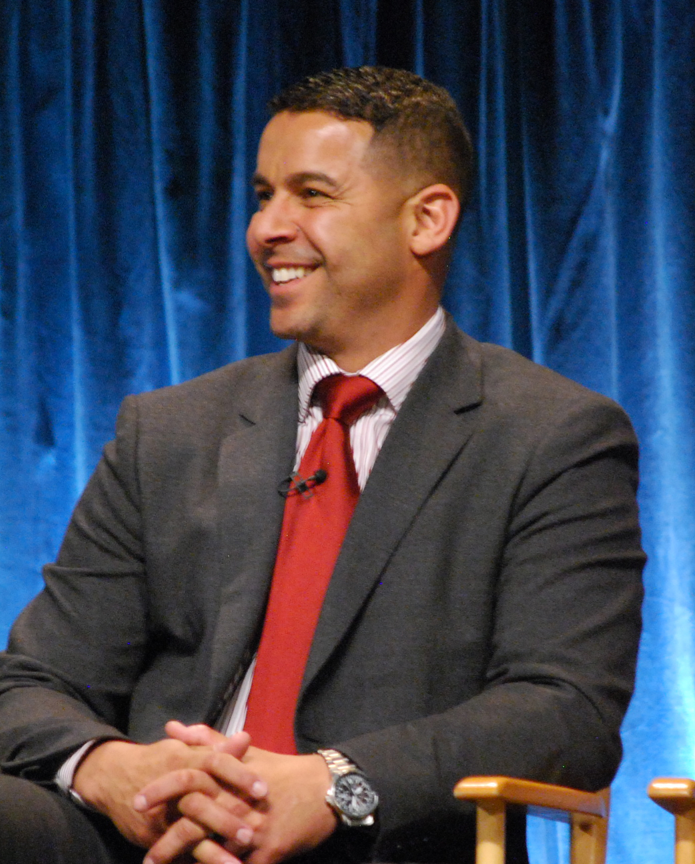 Jon Huertas at Paleyfest 2012